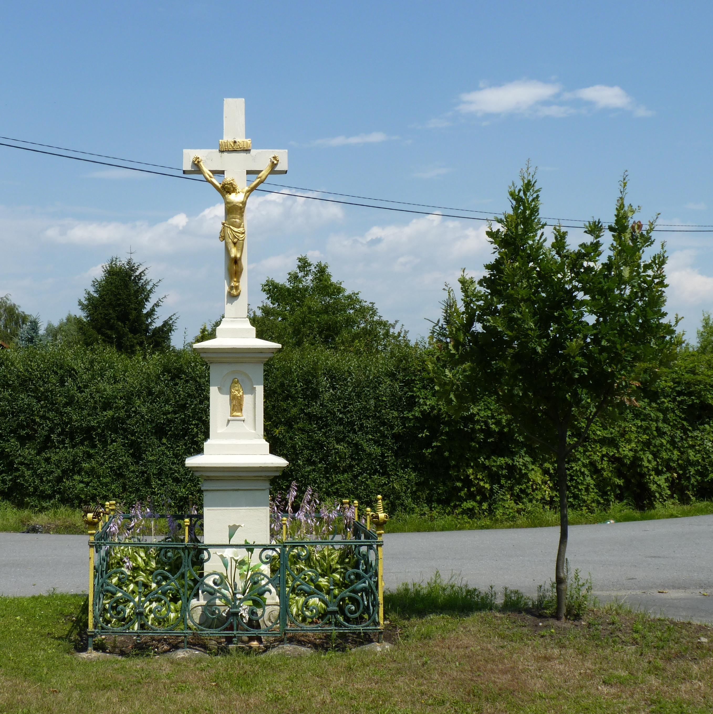 Bohumín, Šunychl. Karviná District, Moravian-Silesian Region, Czech Republic